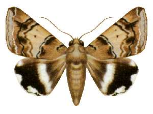 Achaea janata (caster oil looper) Phylum ARTHROPODA Class HEXAPODA Order Lepidoptera Family Noctuidae